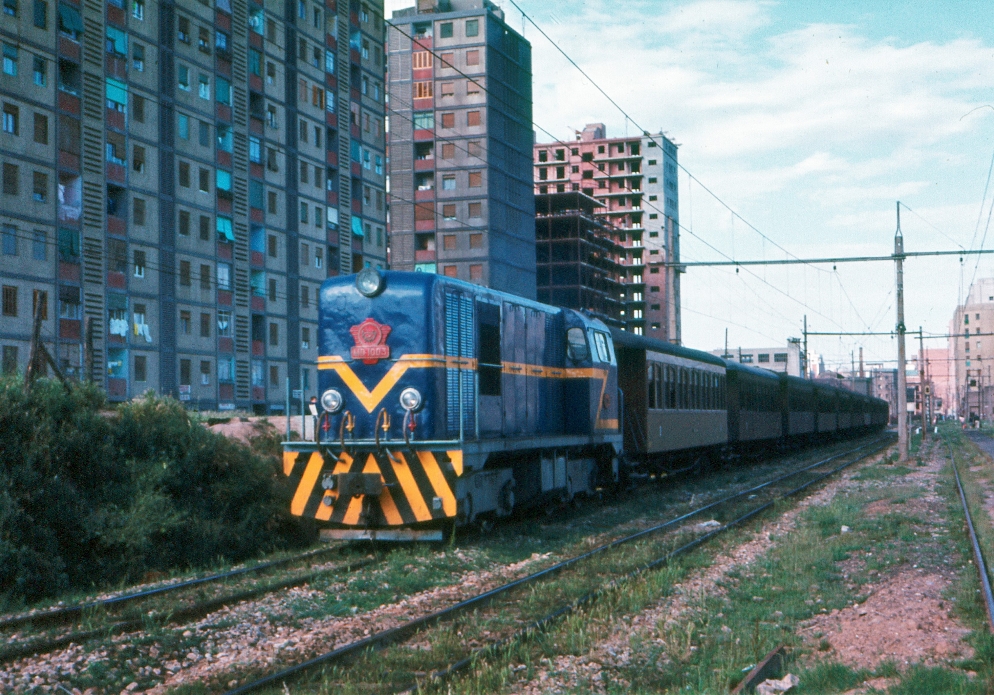 EFE's MO 1003 diesel locomotive, operated by the Compañía General de los Ferrocarriles Catalanes (CGFC), as it passed through La Bordeta station, towing a passenger train with a consist of ten wooden cars.